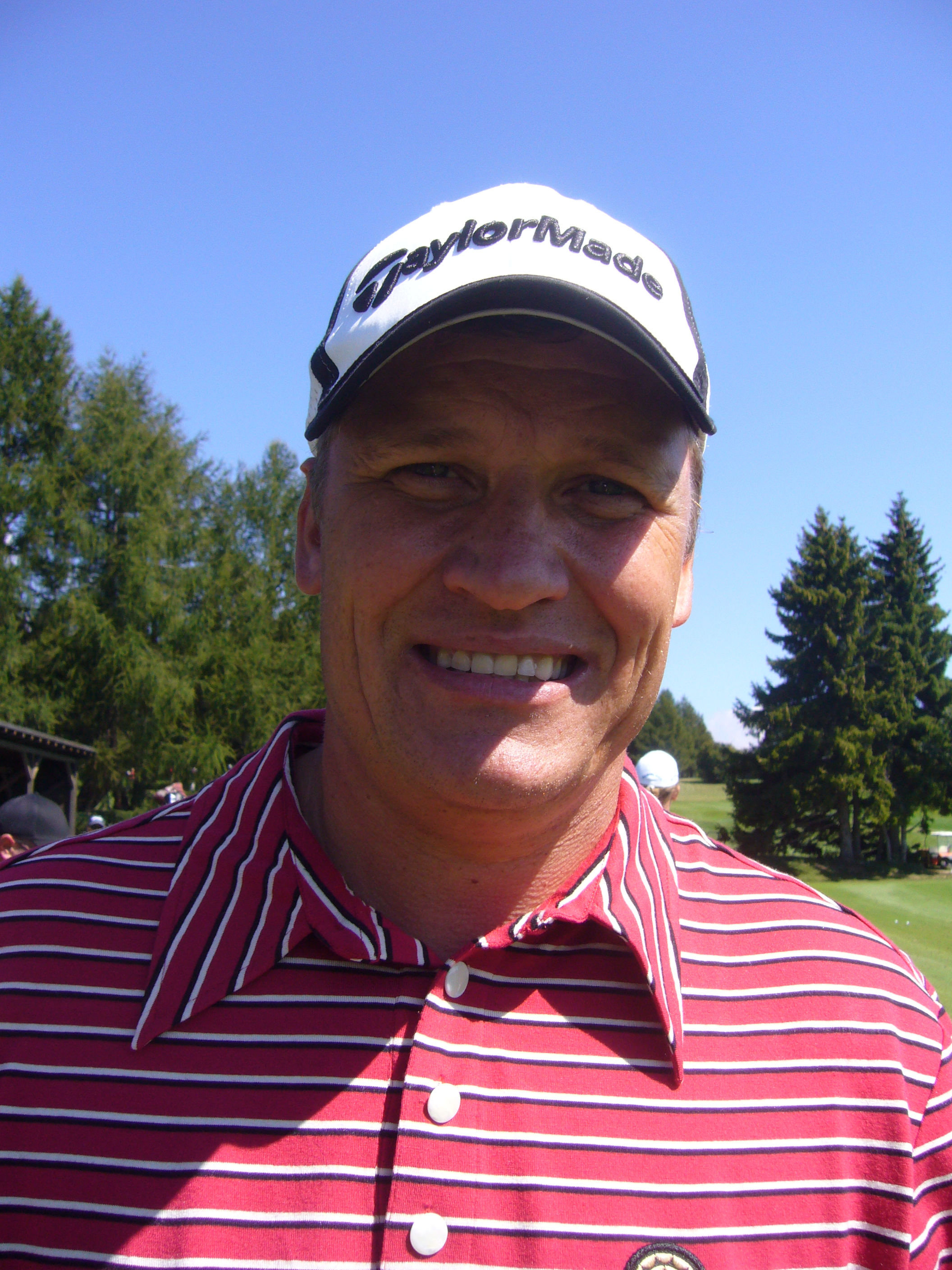 Jarmo Sandelin, golfprofessional